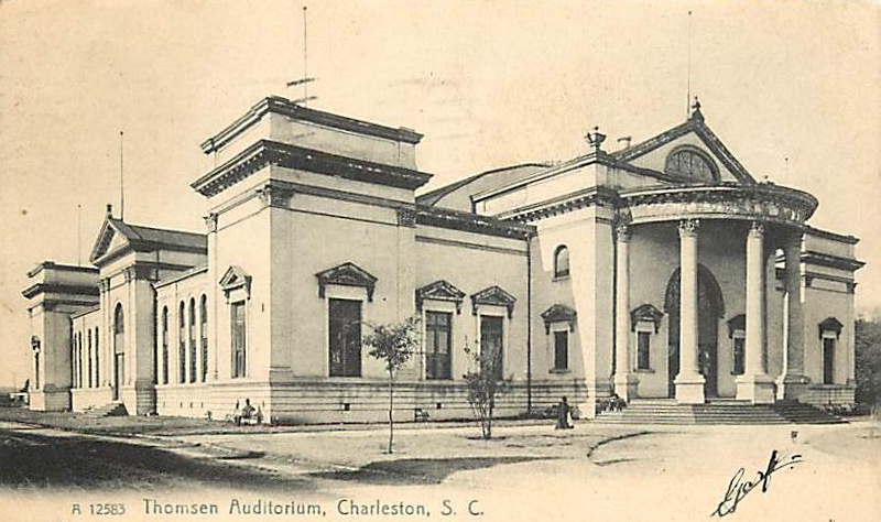 Thomson Auditorium was built to host a Civil War reunion in the 1890s and later housed the Charleston Museum before burning in 1981.